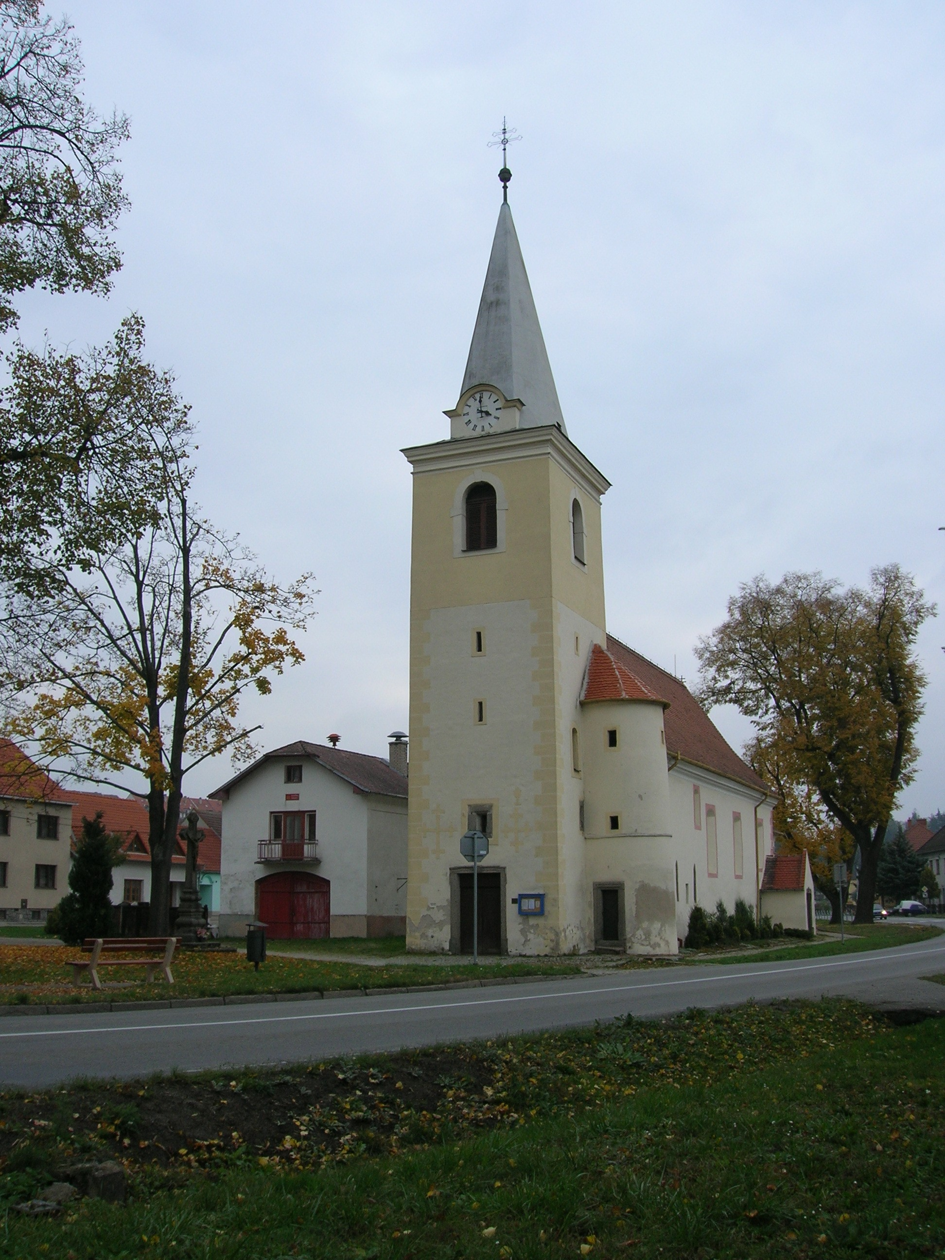 Holy Trinity church in Vladislav, Třebíč District, Czech Republic